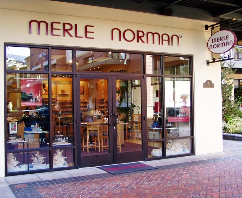 Merle Norman Store in Oakway Center, Eugene, Oregon